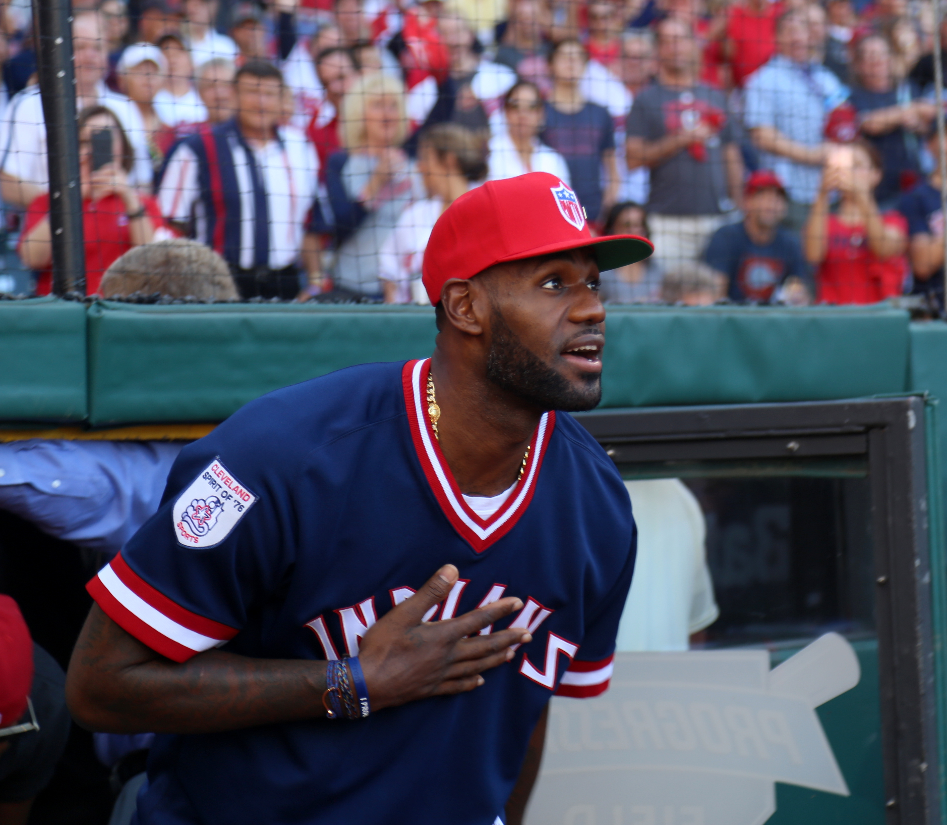 LeBron James arrives for ALDS Game 2 at Progressive Field.